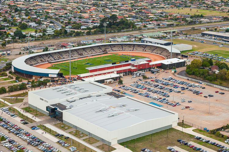 Ariel view of ASB Stadium and the neighbouring ASB Arena in Tauranga